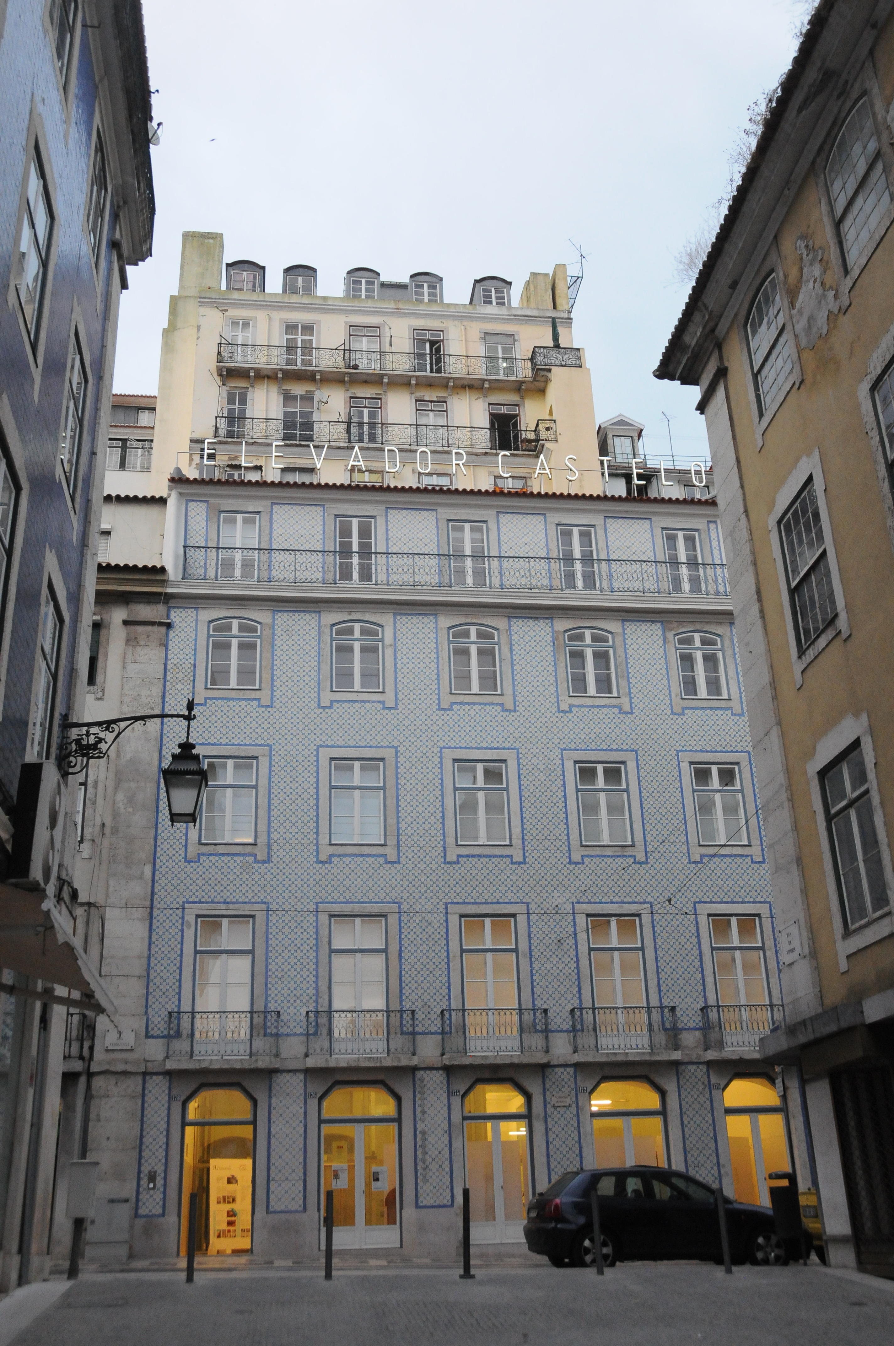 Elevador do Castelo in Lisbon Portugal.